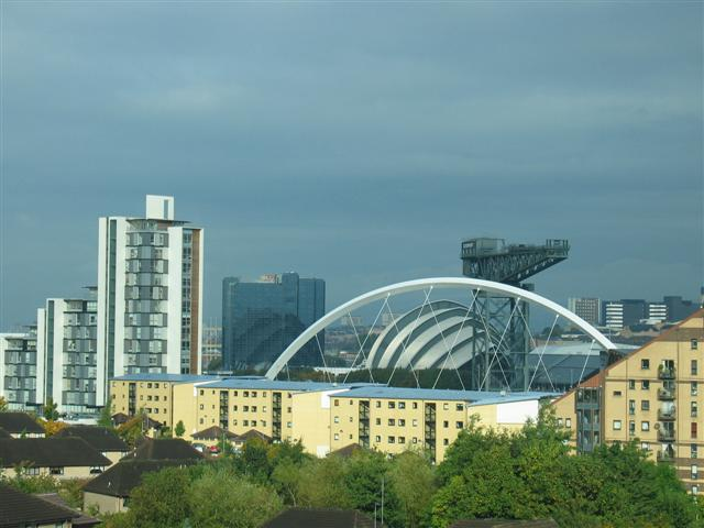 Glasgow skyline by day